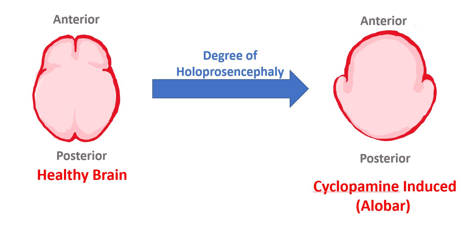 Cyclopamine causes an extreme degree of holoprosencephaly as depicted. Information gathered from [1].